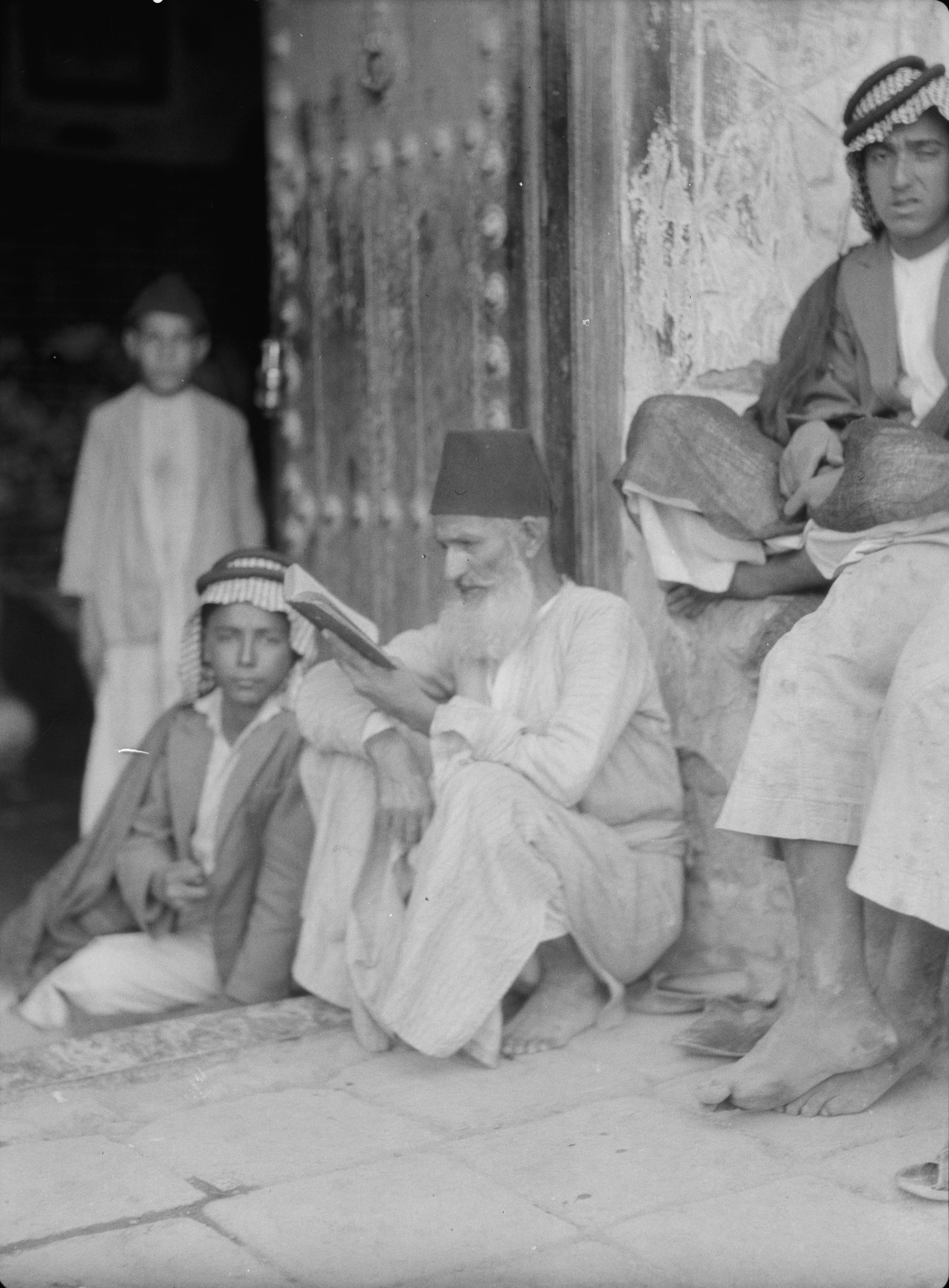 Title: Iraq. Kifl. Native Moslem [i.e., Muslim] village with a Jewish shrine to the prophet Ezekiel. Jewish rabbi reading. At the entrance to the shrine Abstract/medium: G. Eric and Edith Matson Photograph Collection Physical description: 1 negative